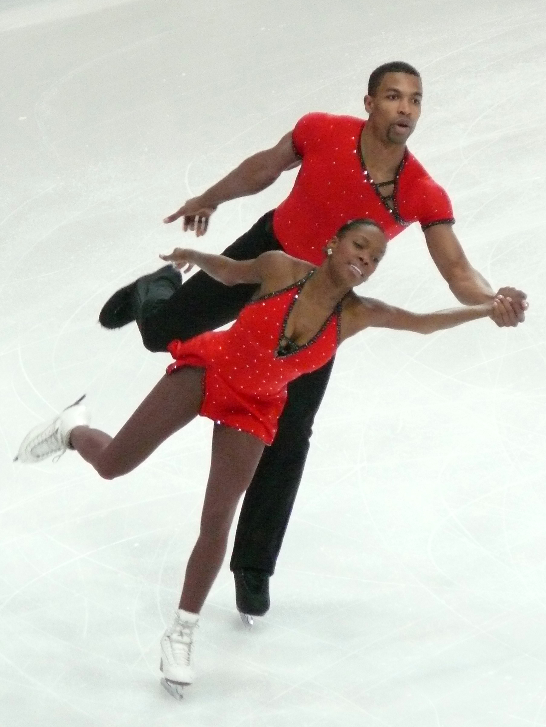 Vanessa James and Yannick Bonheur (FRA) at their Original Program at the Europeans 2009 in Helsinki